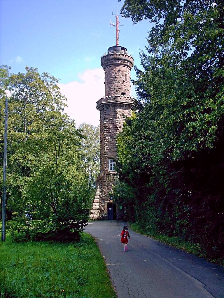 The "Friedrichsturm" (Frederick's Tower) in Freudenstadt named after the founder of the town, Frederick I, Duke of Württemberg. The inauguration of the building took place on the occasion of the 300th jubilee of the town in 1899. The tower offers a beautiful view on the Black Forest city.